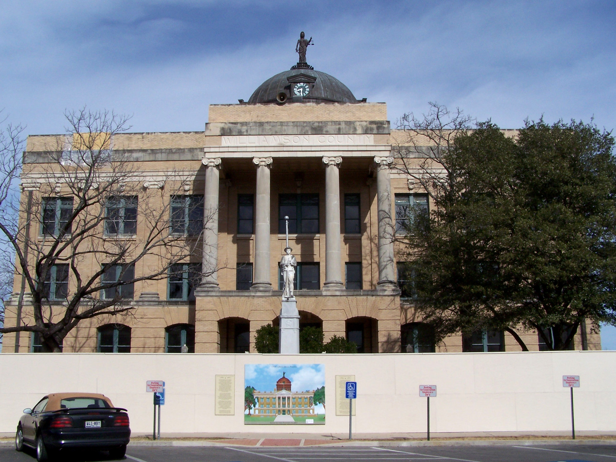 The Williamson County Courthouse located at 30.6370° -97.6775°, Georgetown, Texas, United States undergoing renovation.